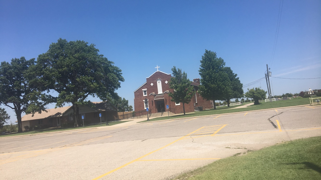 Picture of St Johns Church in Clonmel, Kansas